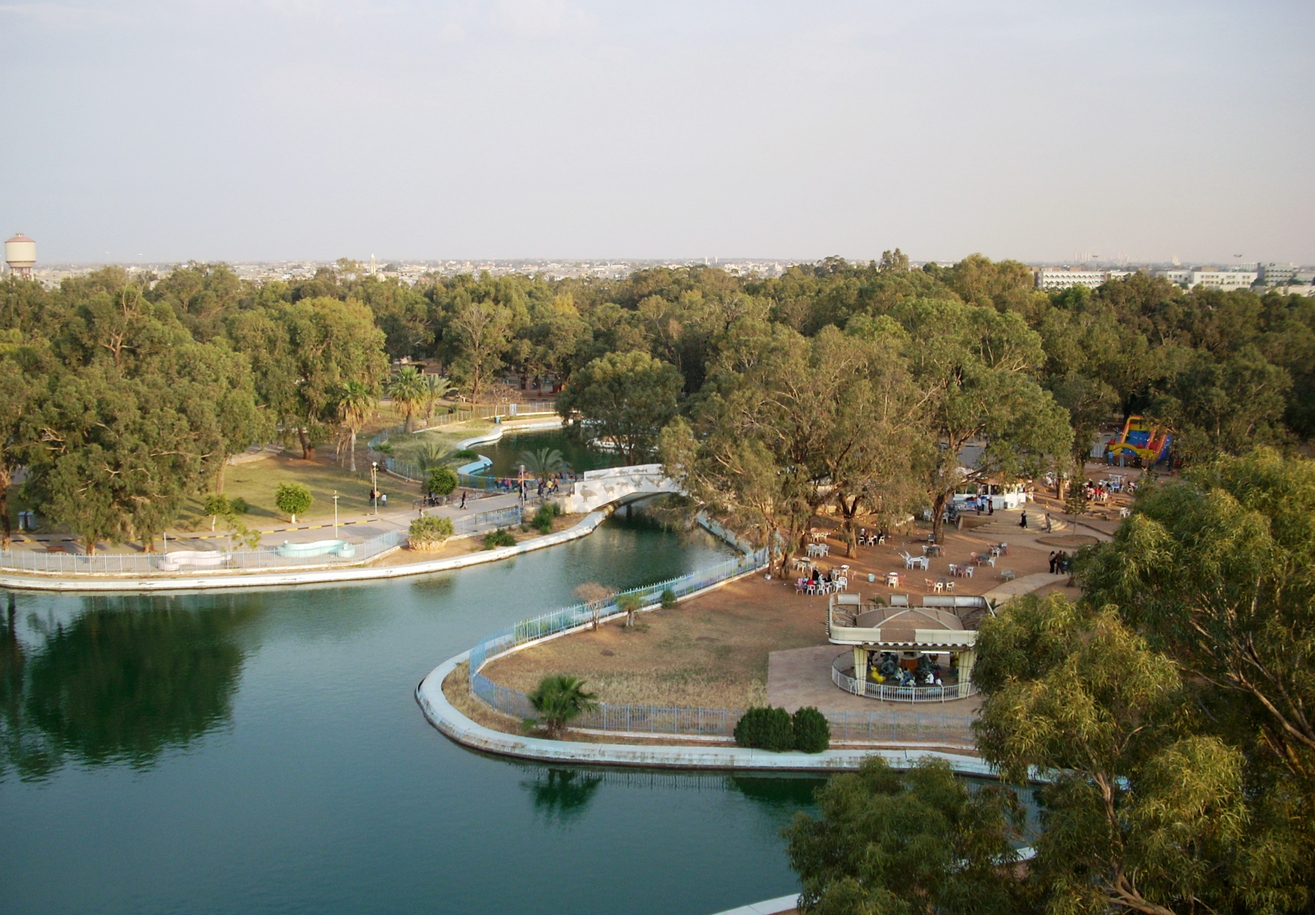 A general view of Benghazi Zoo, officialy known as Benghazi Tourist Park, and unanimously known as al-Bosco by locals. Photograph taken from the Ferris Wheel.